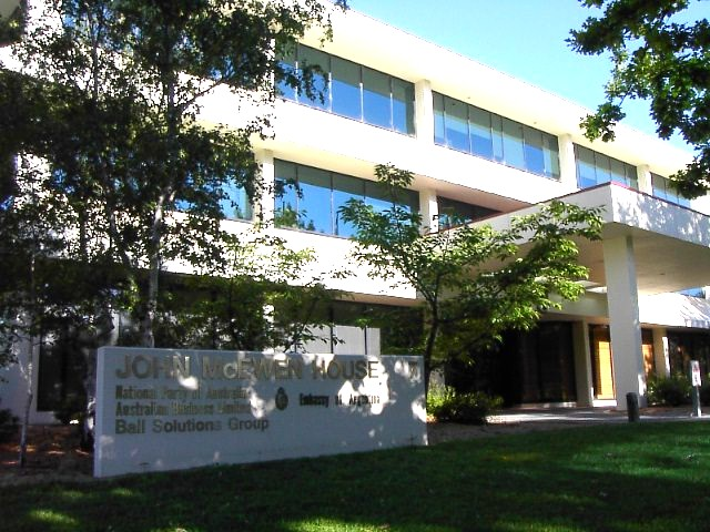 John McEwen House at 7 National Circuit, Barton, Canberra, Australia. The sign reads: "John McEwen House, National Party of Australia, Australian Business Limited, Ball Solutions Group; Embassy of Argentina"